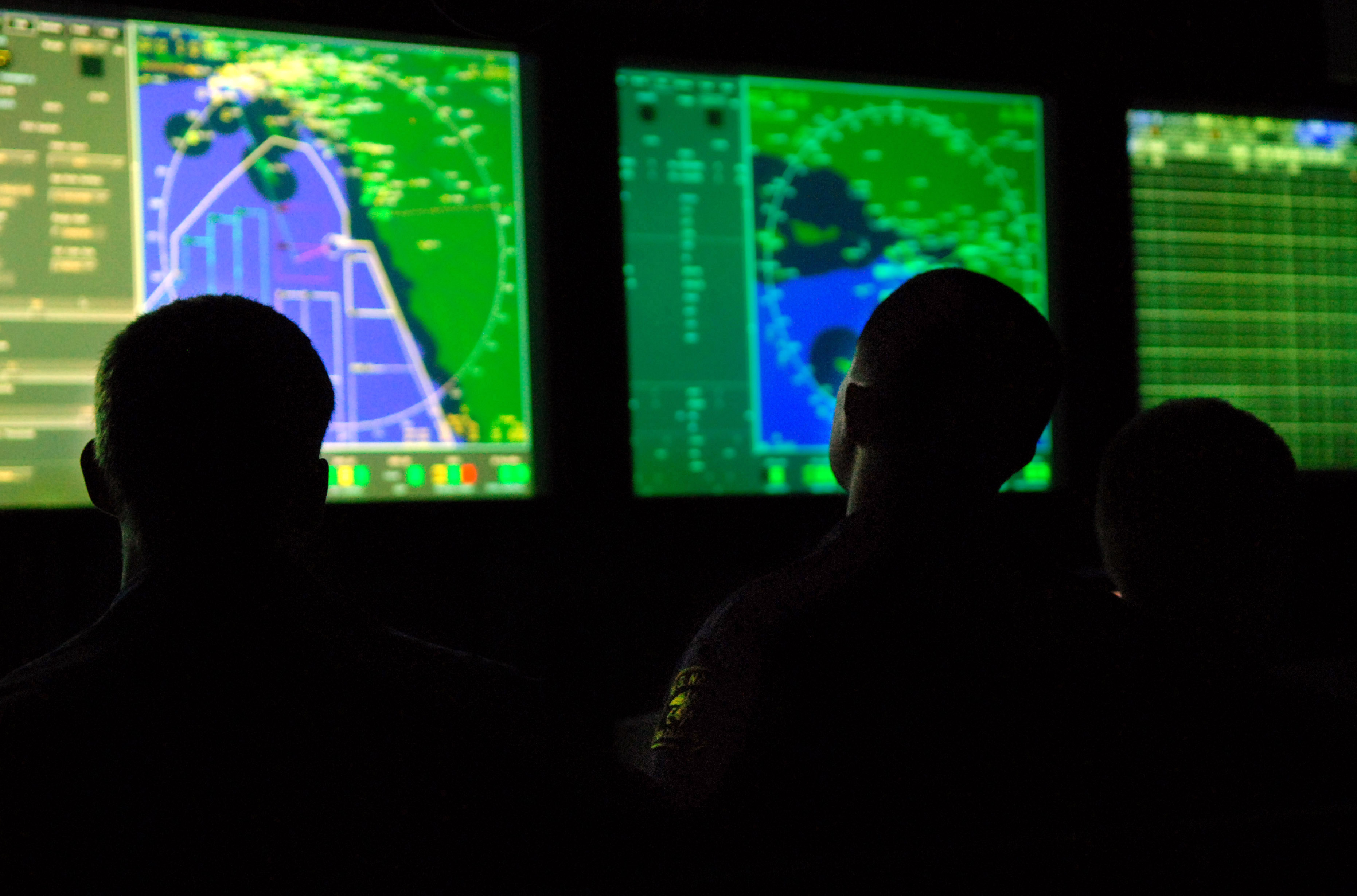 PACIFIC OCEAN (Jan. 14, 2008) U.S. Naval Sea Cadet Corps members from Santa Barbara, Calif., learn about the Nimitz-class nuclear-powered aircraft carrier USS Ronald Reagan's (CVN 76) Combat Direction Center while on a guided tour of the ship. Ronald Reagan is underway in the Pacific Ocean conducting routine carrier operations. U.S. Navy photo by Mass Communication Specialist 2nd Class Jennifer S. Kimball (RELEASED)